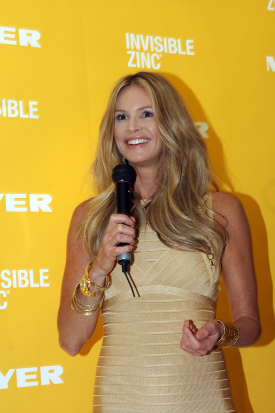 Elle Macpherson poses at a promotion for Invisible Zinc at Myer on October 21, 2011 in Sydney, Australia